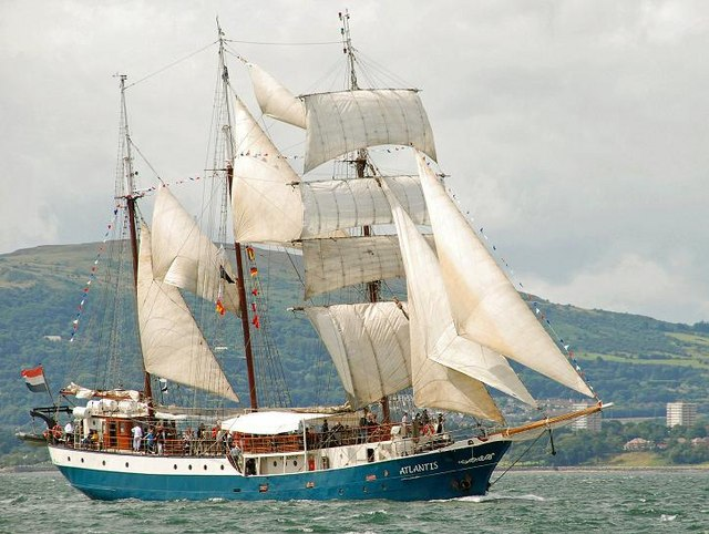 Tall ships, Belfast Lough 2009 (2) The Dutch Atlantis (57 metres, built in 1905).